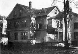 Kep house